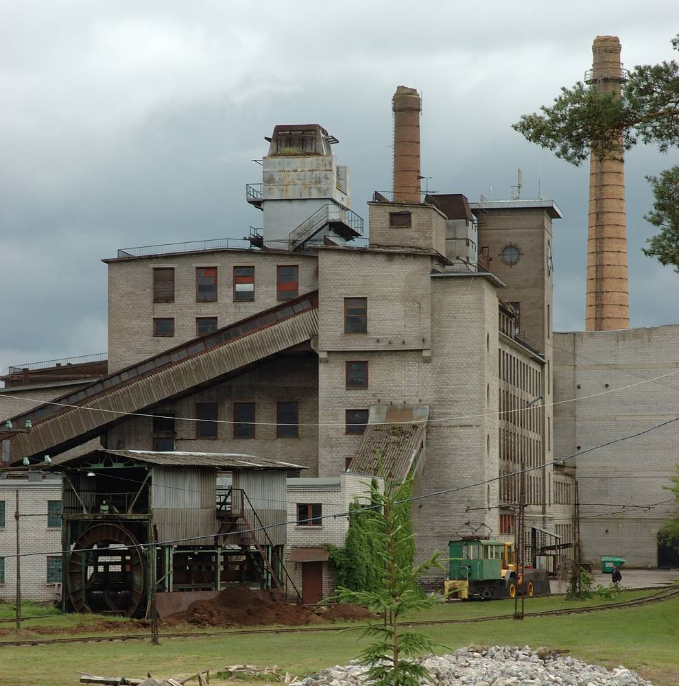 Tootsi peat factory, Estonia